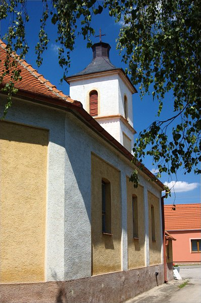 Trnovec, church